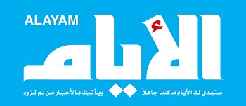 Alayam media Publishing B.S.C (c) Logo